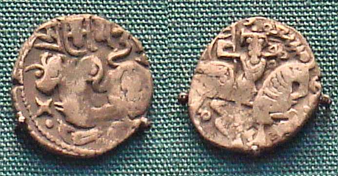 Massud I of Ghazni coin, derived from Shahi design, with the name of Massud in Arabic script